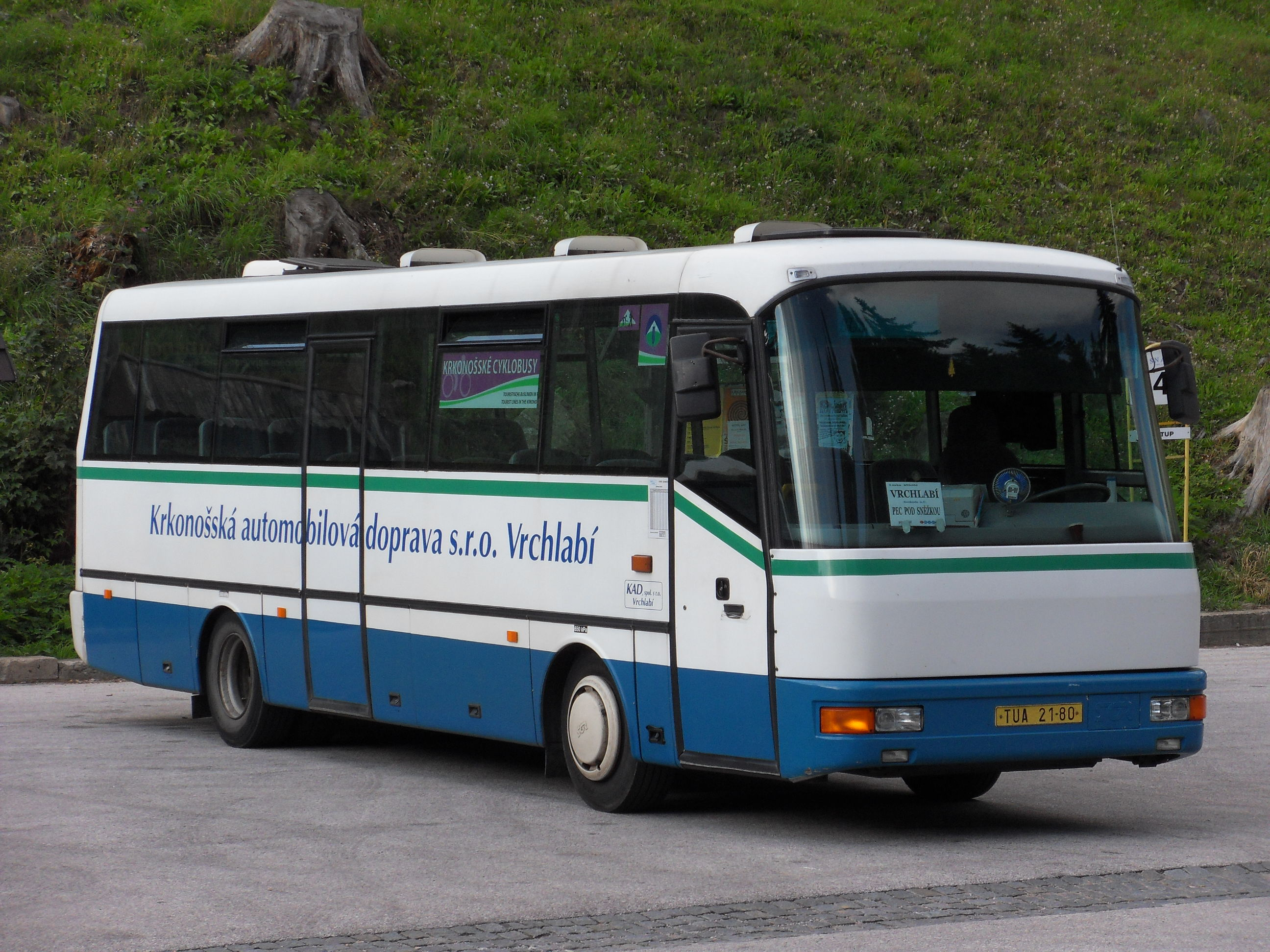 SOR C 9,5 bus of Krkonošská automobilová doprava Vrchlabí, bus station, Pec pod Sněžkou, Czech Republic